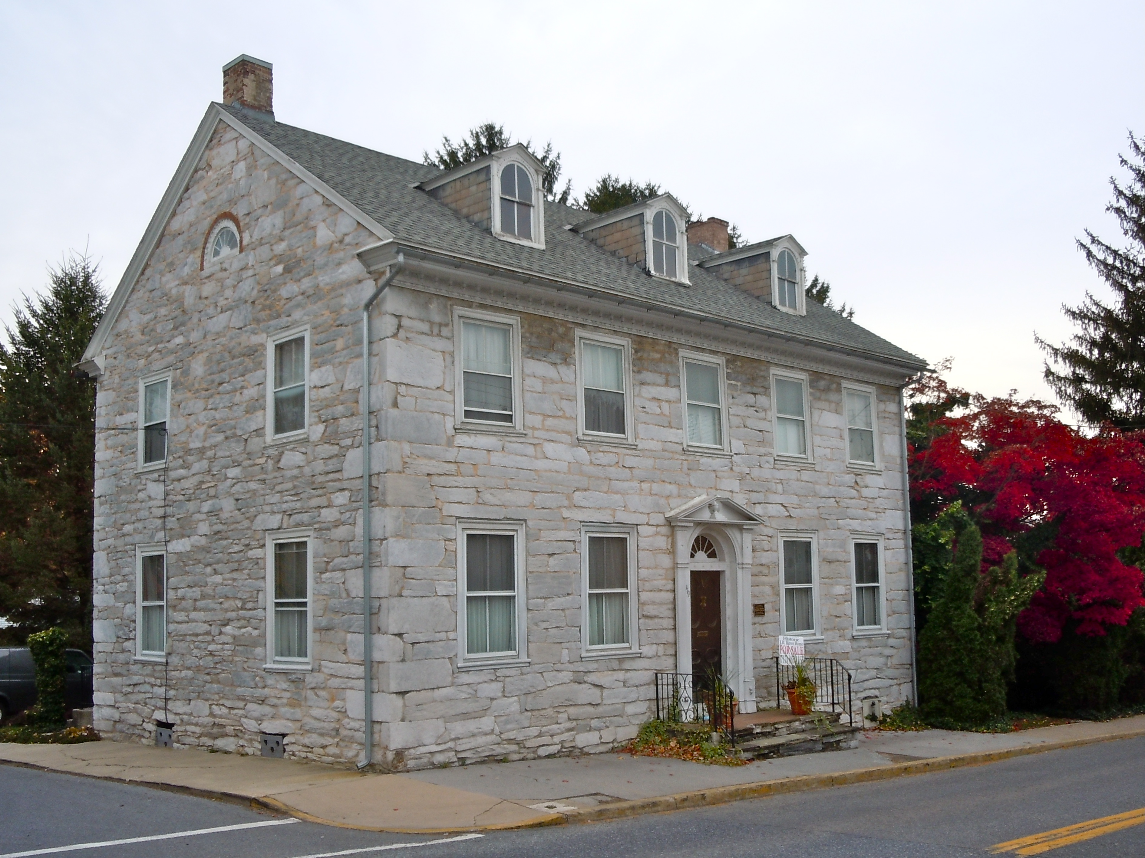 Biever House on the NRHP since February 14, 1978. At 49 South White Oak Street in Annville, Annville Township, Lebanon County, Pennsylvania. Built 1814.